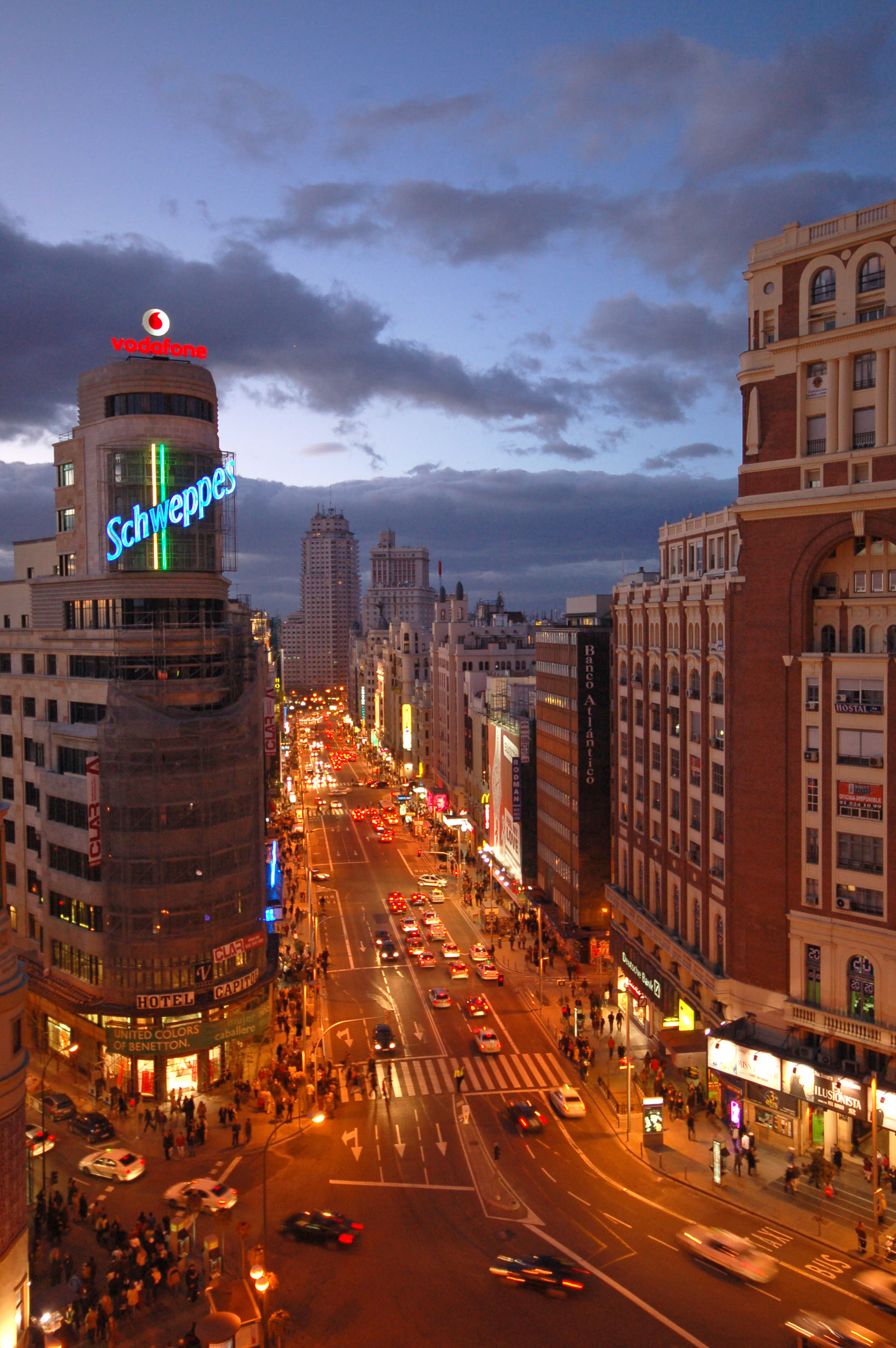 View of Plaza del Callao (square) and Gran Vía (avenue) in Madrid (Spain) at dusk.